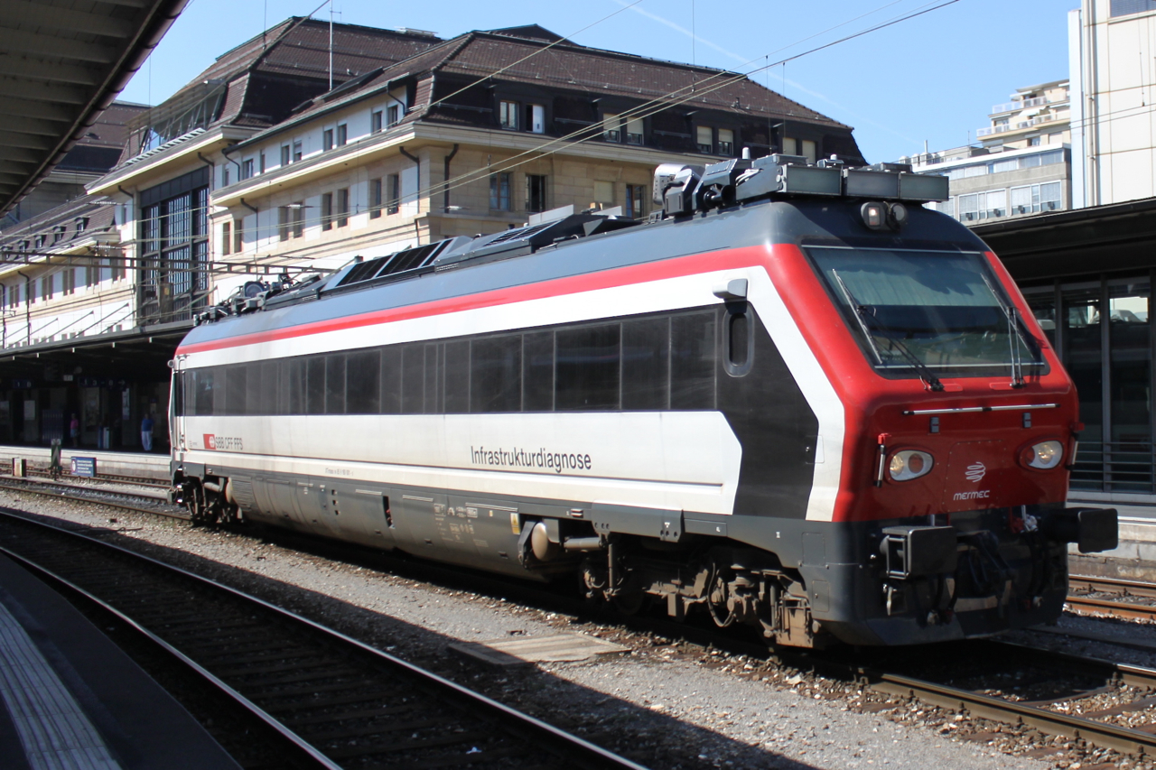 SBB CFF FFS XTmass 99 85 9 160 001-5 rail inspection motor car (built by MerMec SpA) at Lausanne station.